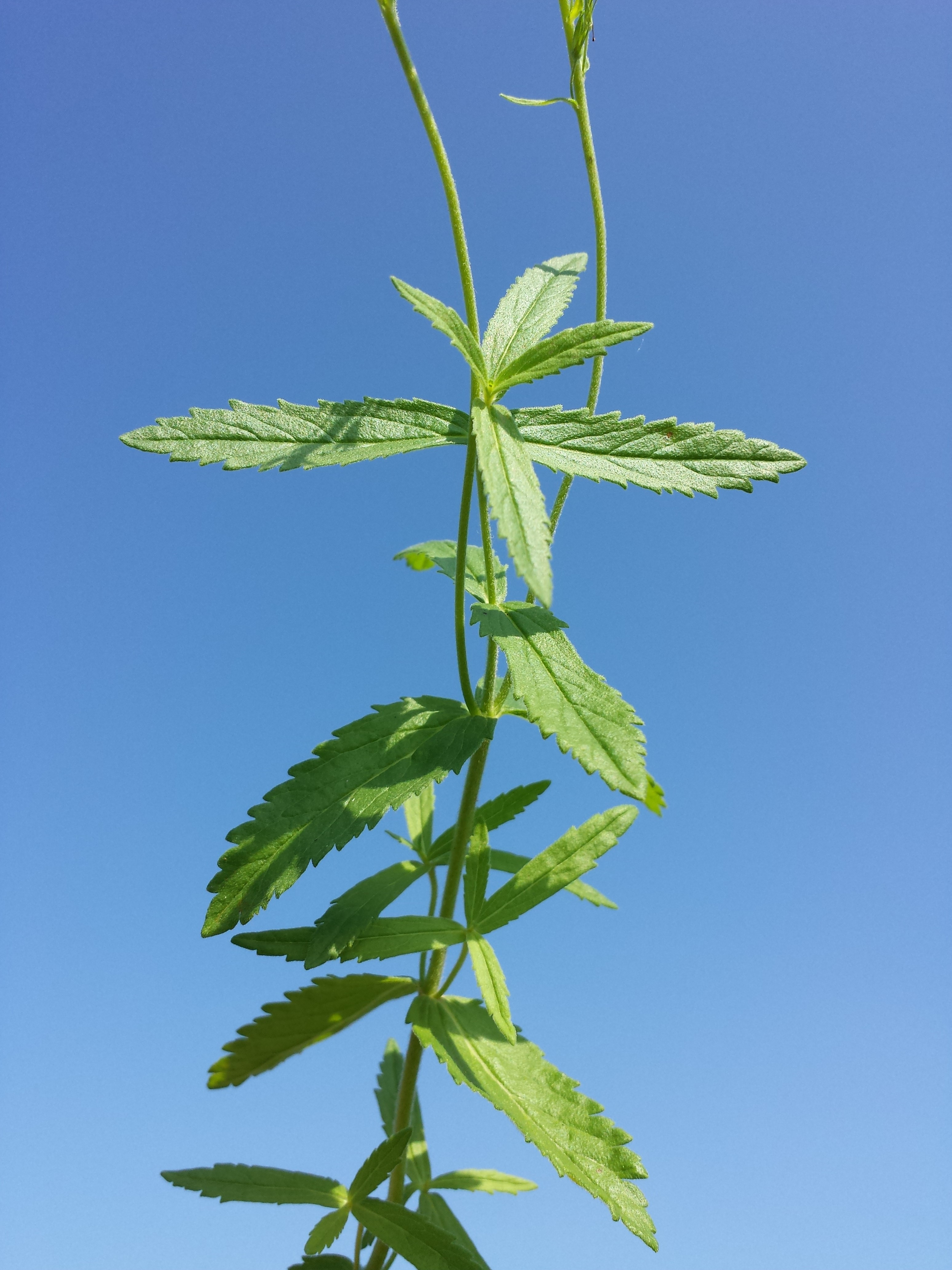 Vegetative shoot Taxonym: Veronica teucrium ss Fischer et al. EfÖLS 2008 ISBN 978-3-85474-187-9 Location: Steinberg near Niederhollabrunn, district Korneuburg, Lower Austria - ca. 375 m a.s.l. Habitat: semi-dry grassland